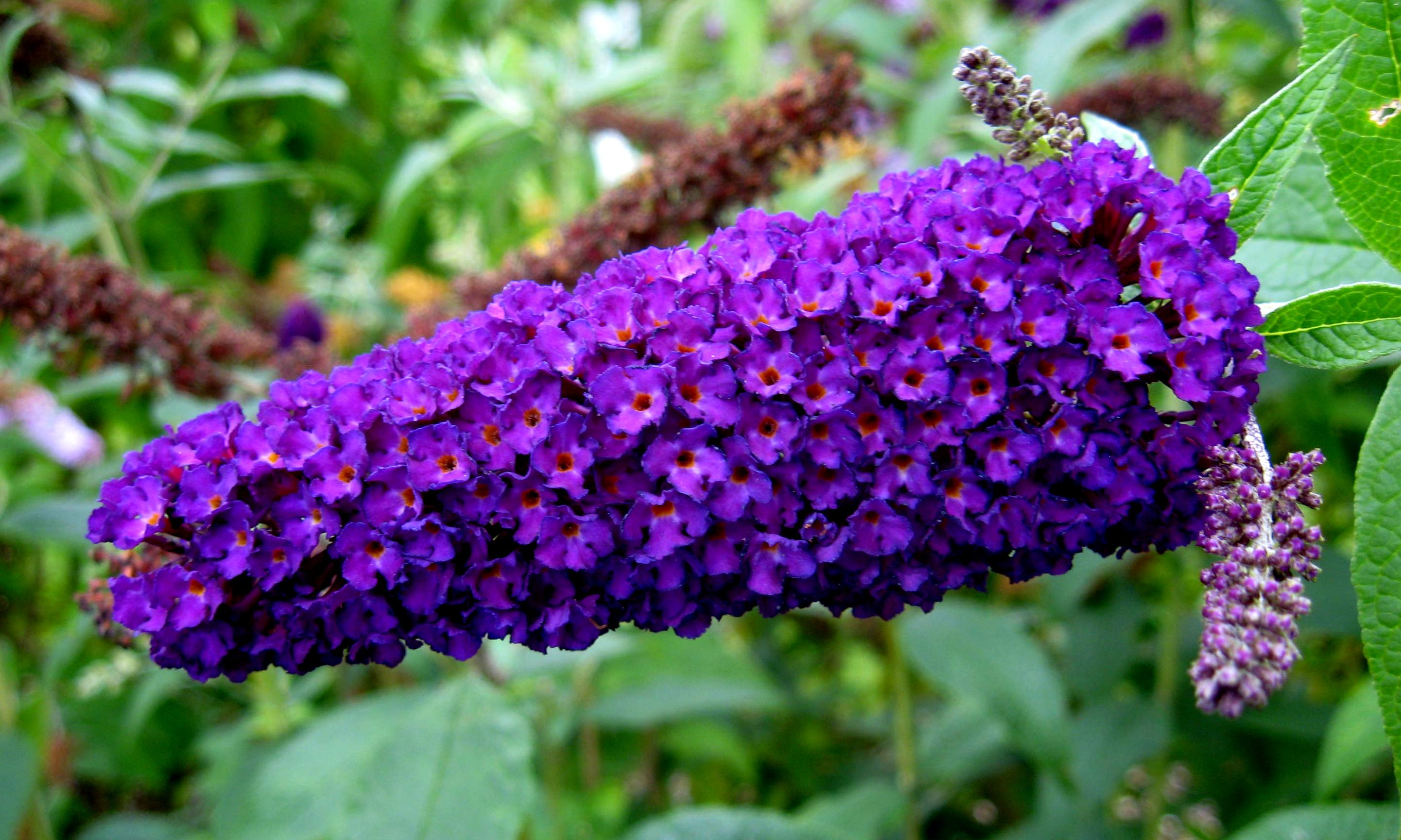 Photo taken at Longstock Park, UK, August 2012.